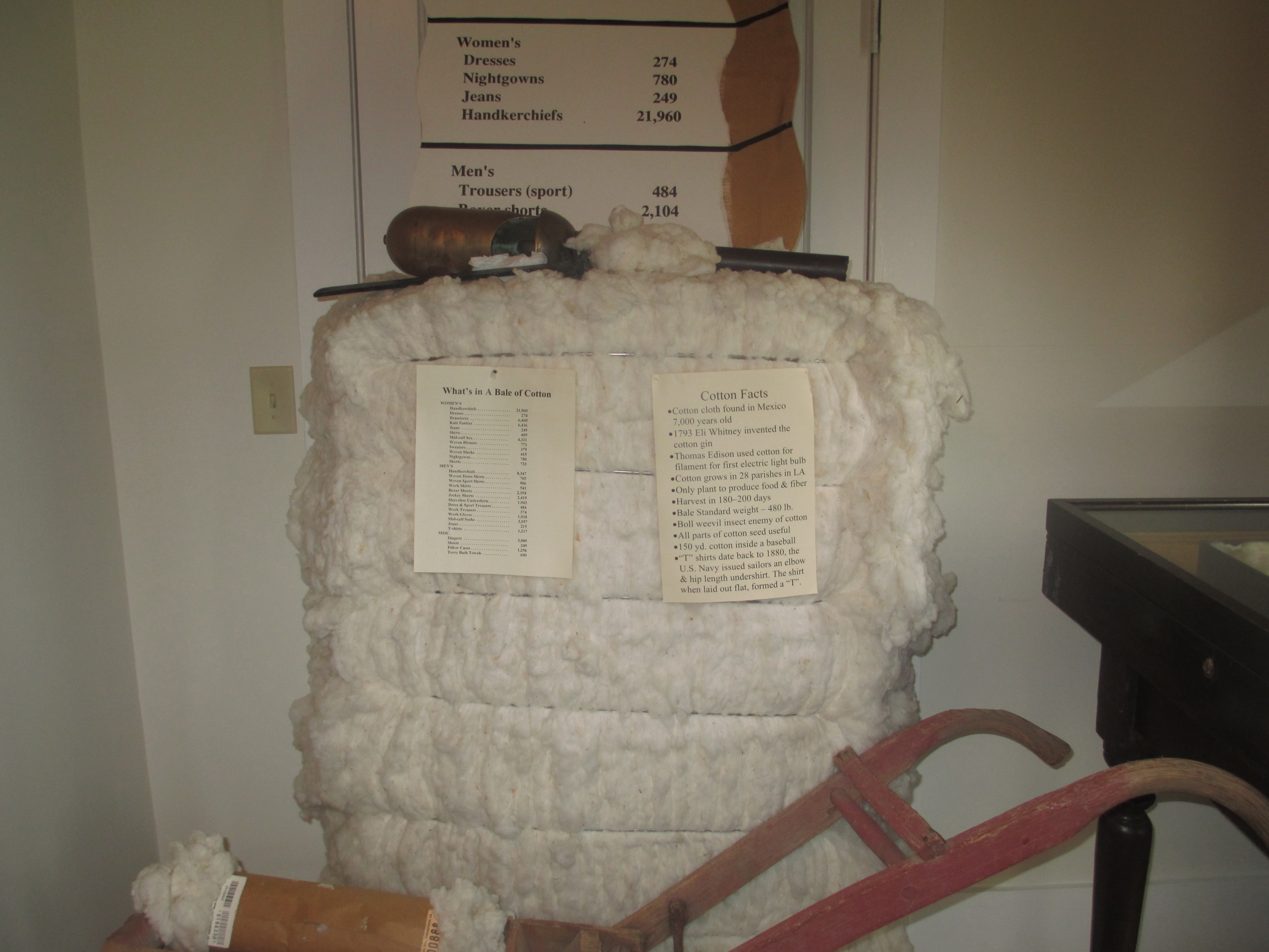 I took photo of bale of cotton at LA Cotton Museum in Lake Providence, LA, with Canon camera.